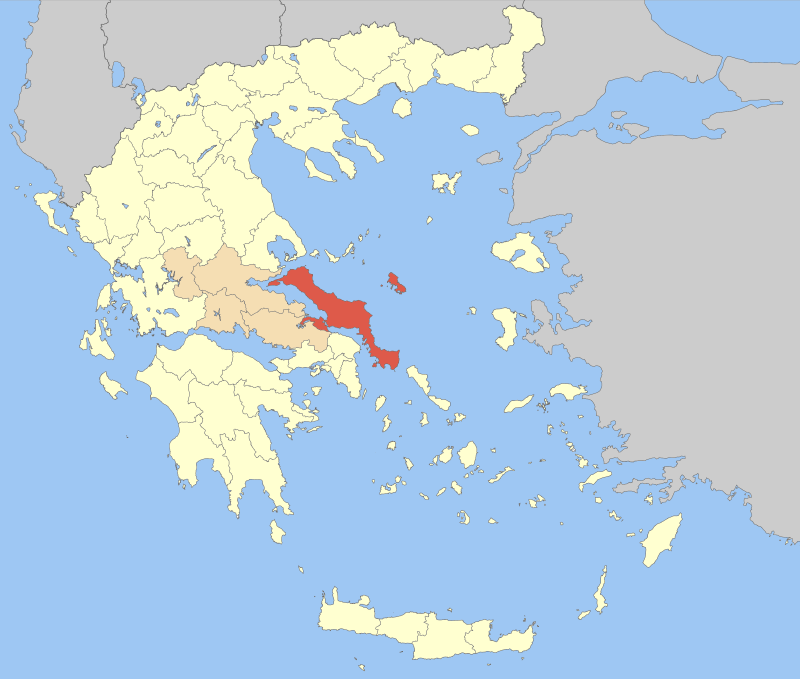 Locator map of Euboea prefecture (Νομός Εύβοιας) in Greece